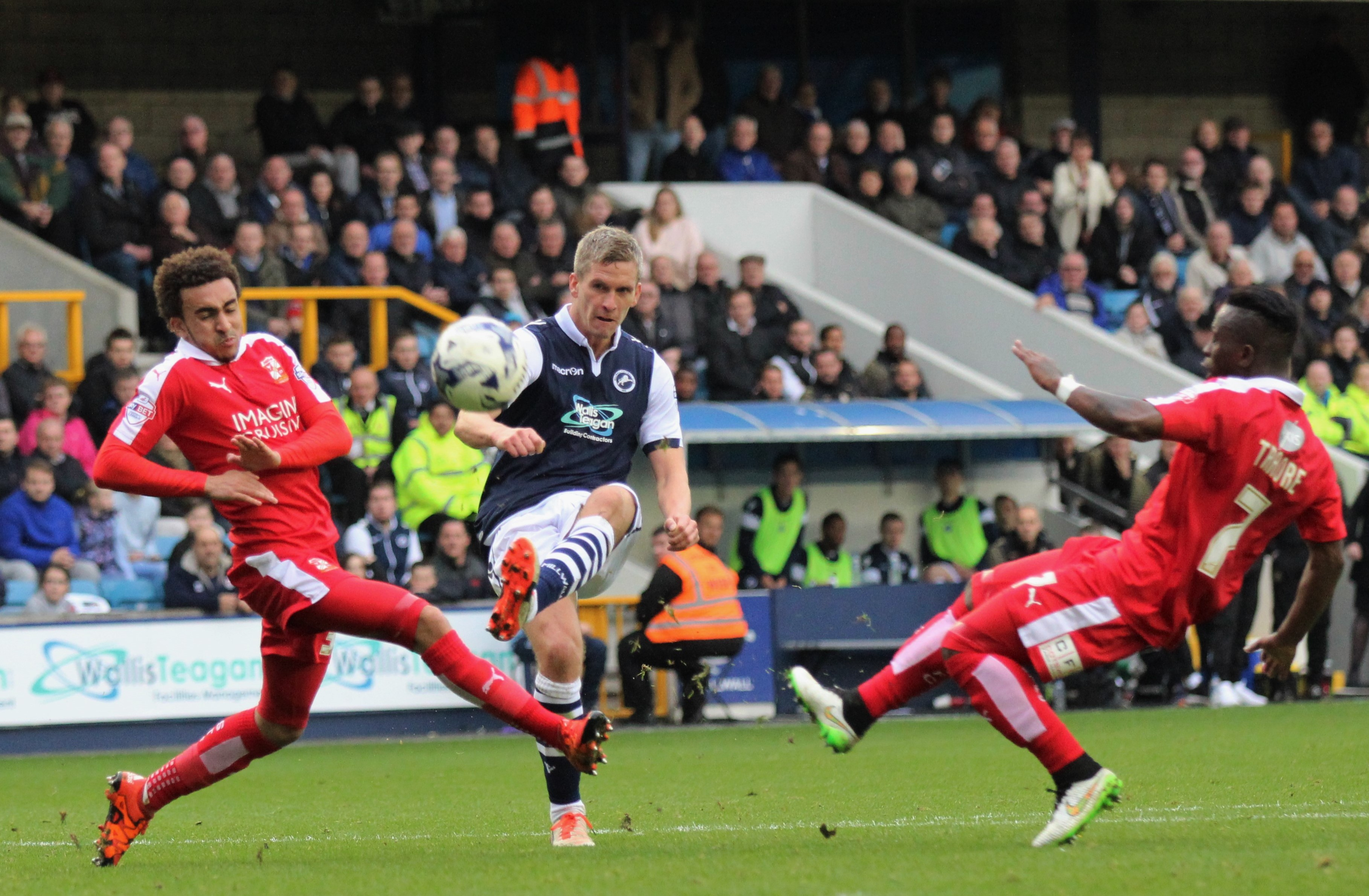 Steve Morison of Millwall shoots at goal during the game against Swindon Town.